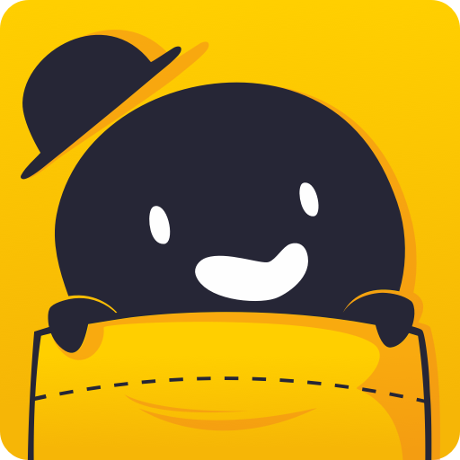 Tapas Logo